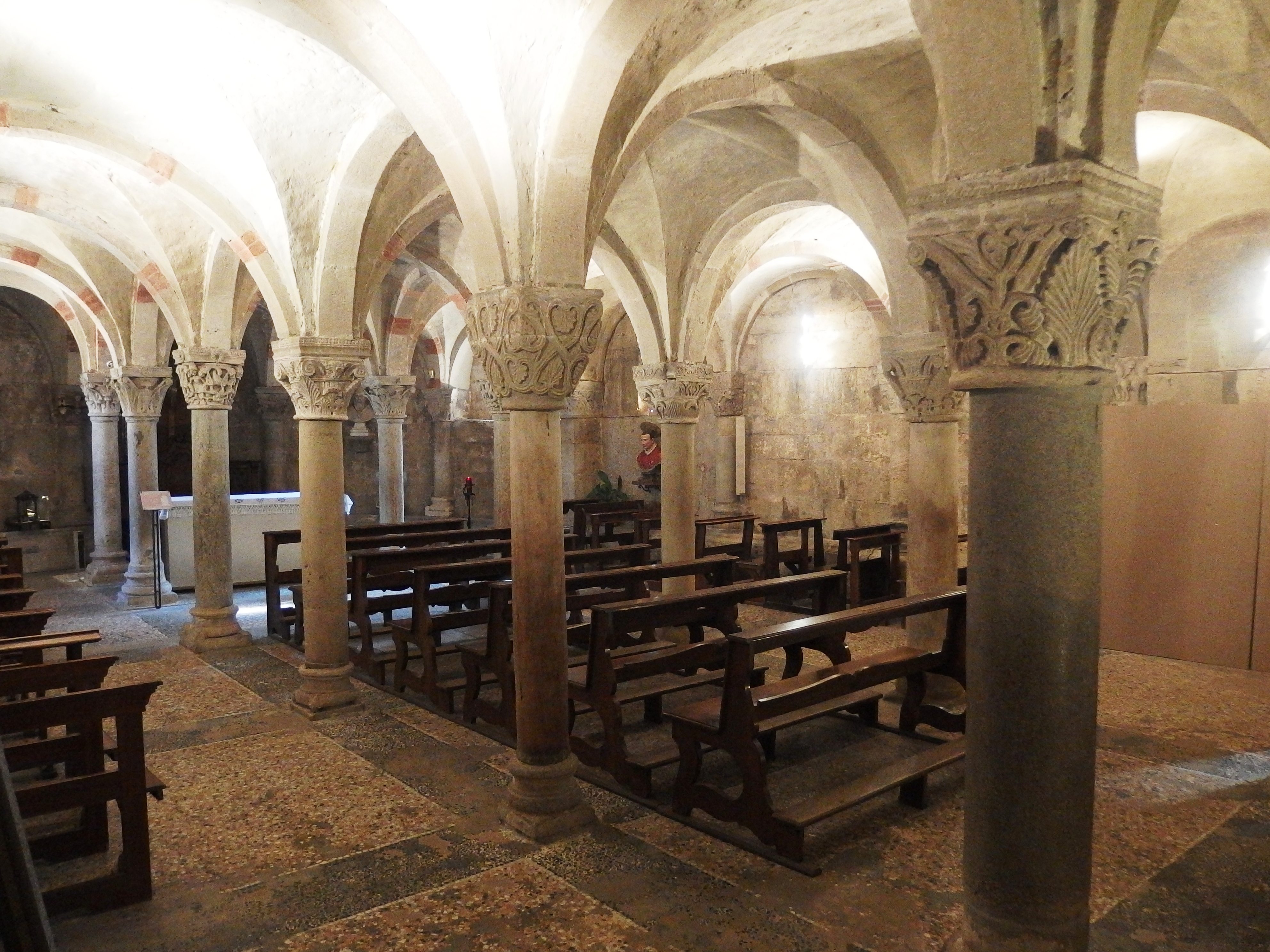 Pavia, Italy. Church San Michele, crypt.